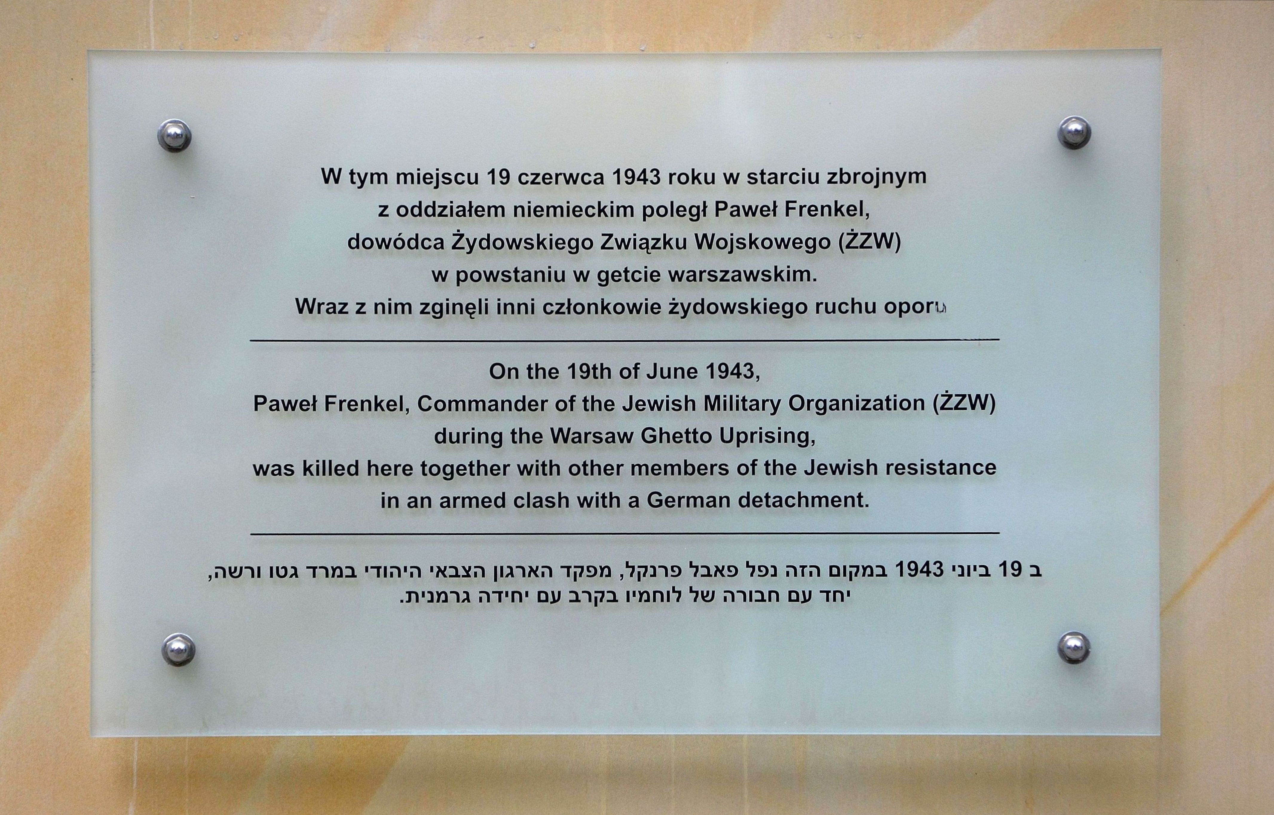 Plaque in memory of Paweł Frankel at Grzybowska 5A in Warsaw